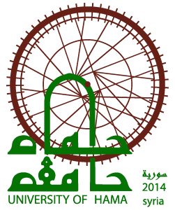 This is a logo for Hama University.